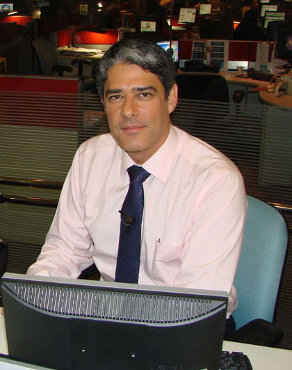 The Brazilian journalist William Bonner